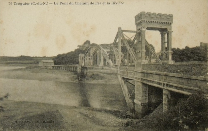 Old postcard printed by Le Roy edition, #76"Tréguier (Britanny, France) - The railway bridge and the river"